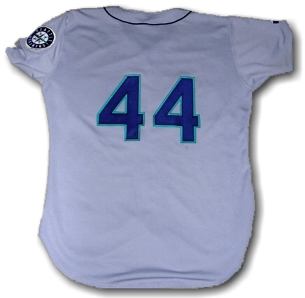 Authentic Seattle Mariners away baseball uniform, manufactured in mid-1990's. This authentic jersey is made by Russell Athletic. The Mariners have worn the navy blue, metallic silver and Northwest green styled-uniforms since 1993. The following players have worn #44 for the Mariners since 1993: Dann Howitt (1993) John Cummings (1994–1995) Paul Sorrento (1996–1997) Jim Bullinger (1998) Mike Cameron (2000–2003) Hiram Bocachica (2004) Richie Sexson (2005–2008) Ty Van Burkleo (2009) Daren Brown (2010) Lucas Luetge (2012-present) The photograph was taken from the uploader's memorabilia collection with a Nikon Coolpix e3200 digital camera and edited using ArcSoft PhotoStudio 5.5